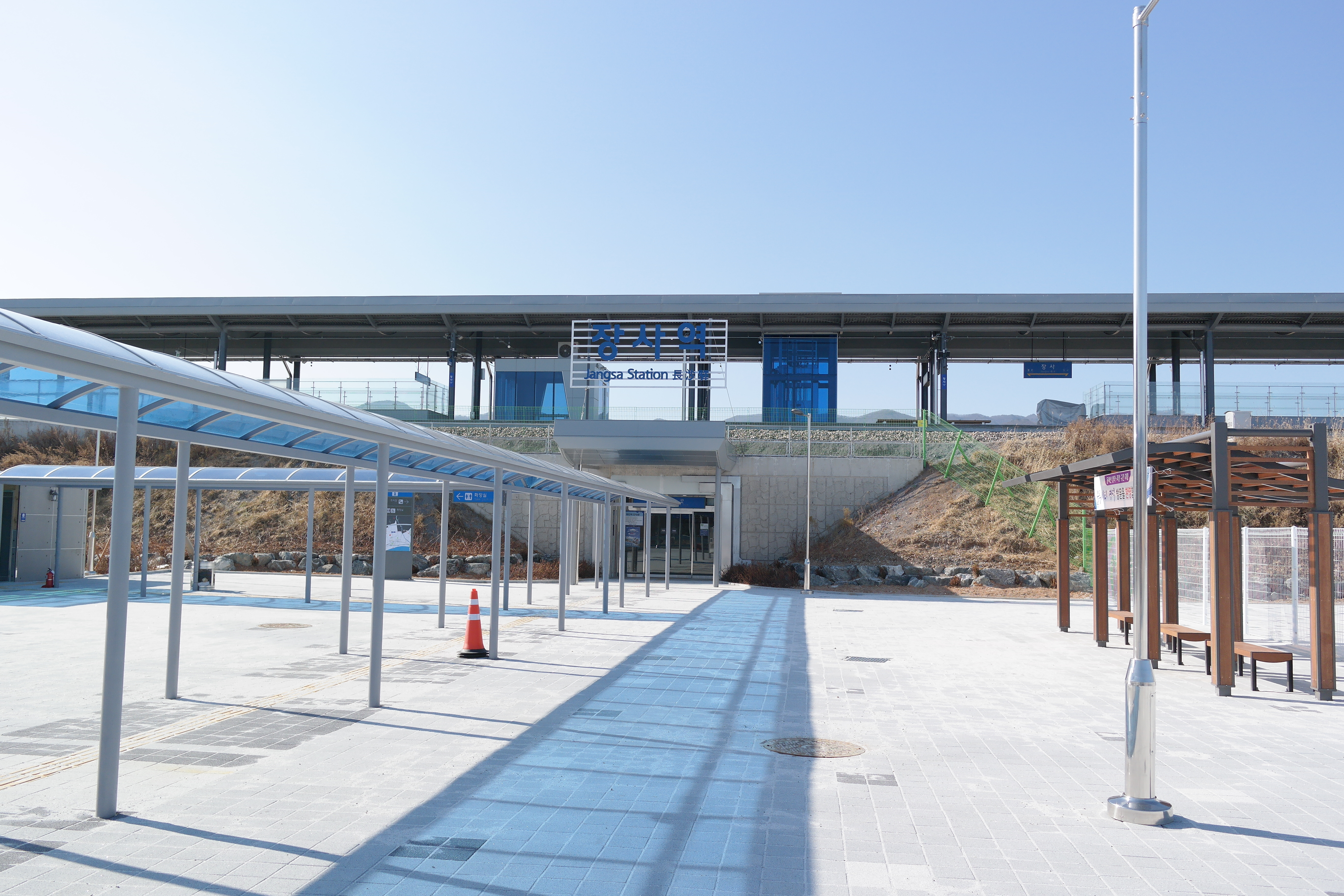 an entrance of Jangsa station